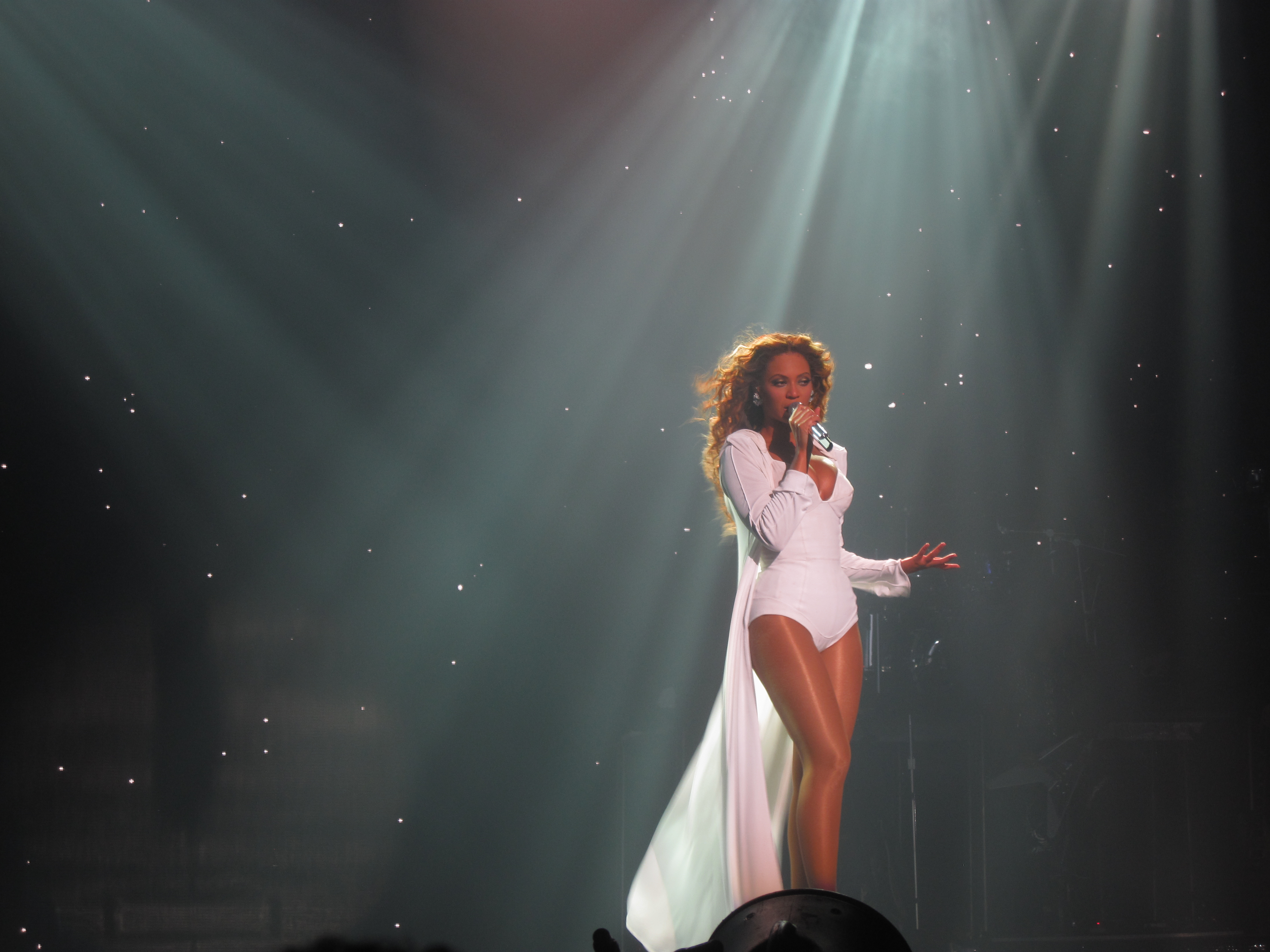 Beyoncé performing on The O2 in London.